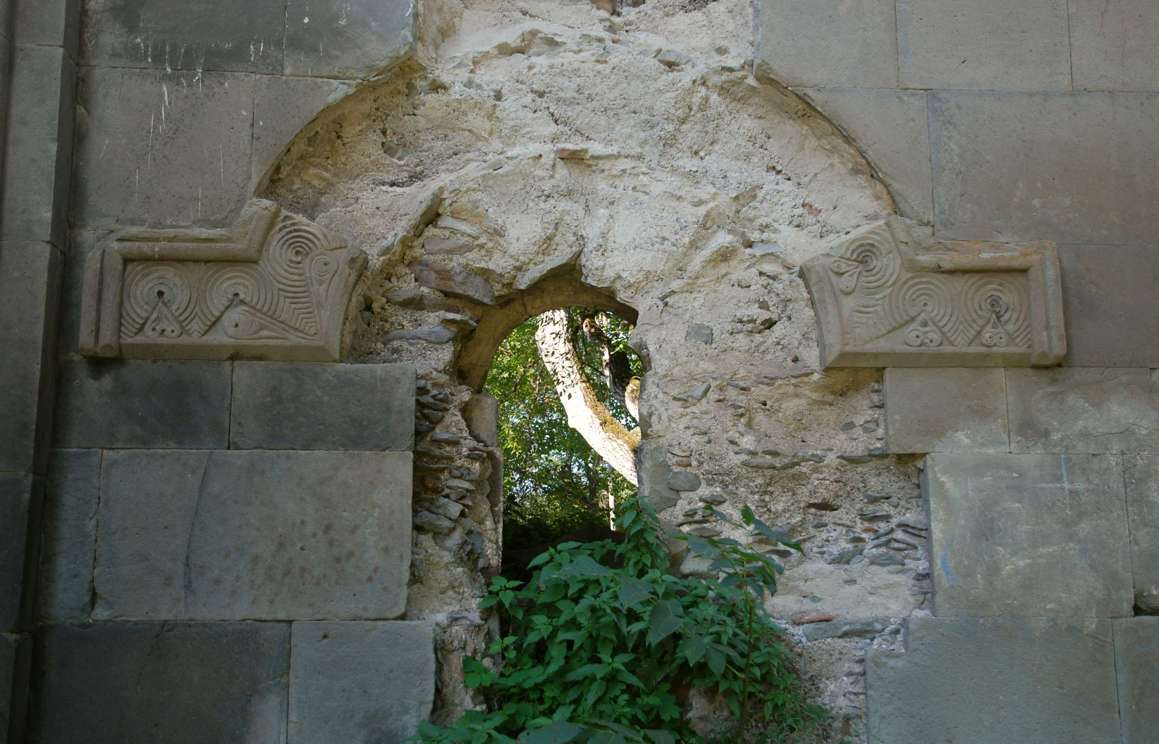 Tbeti, Georgian church in Artvin province, window chapel apse, east wall north